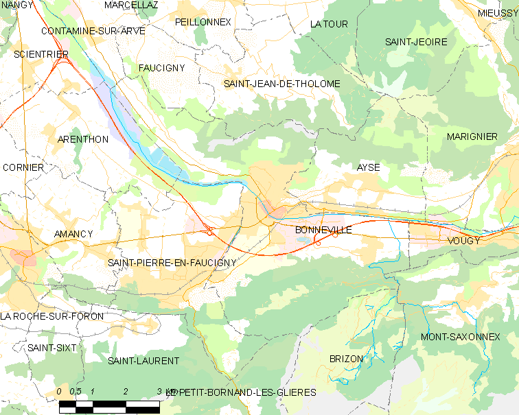 Map of French municipality Bonneville